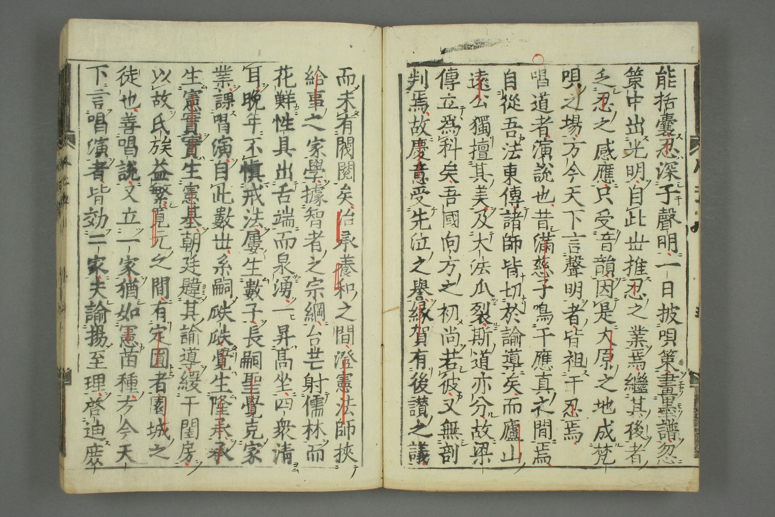 Kokan Shiren" the Genko Syakusyo" (1322, Buddhist history in Ancient and Middle Ages' Japan)